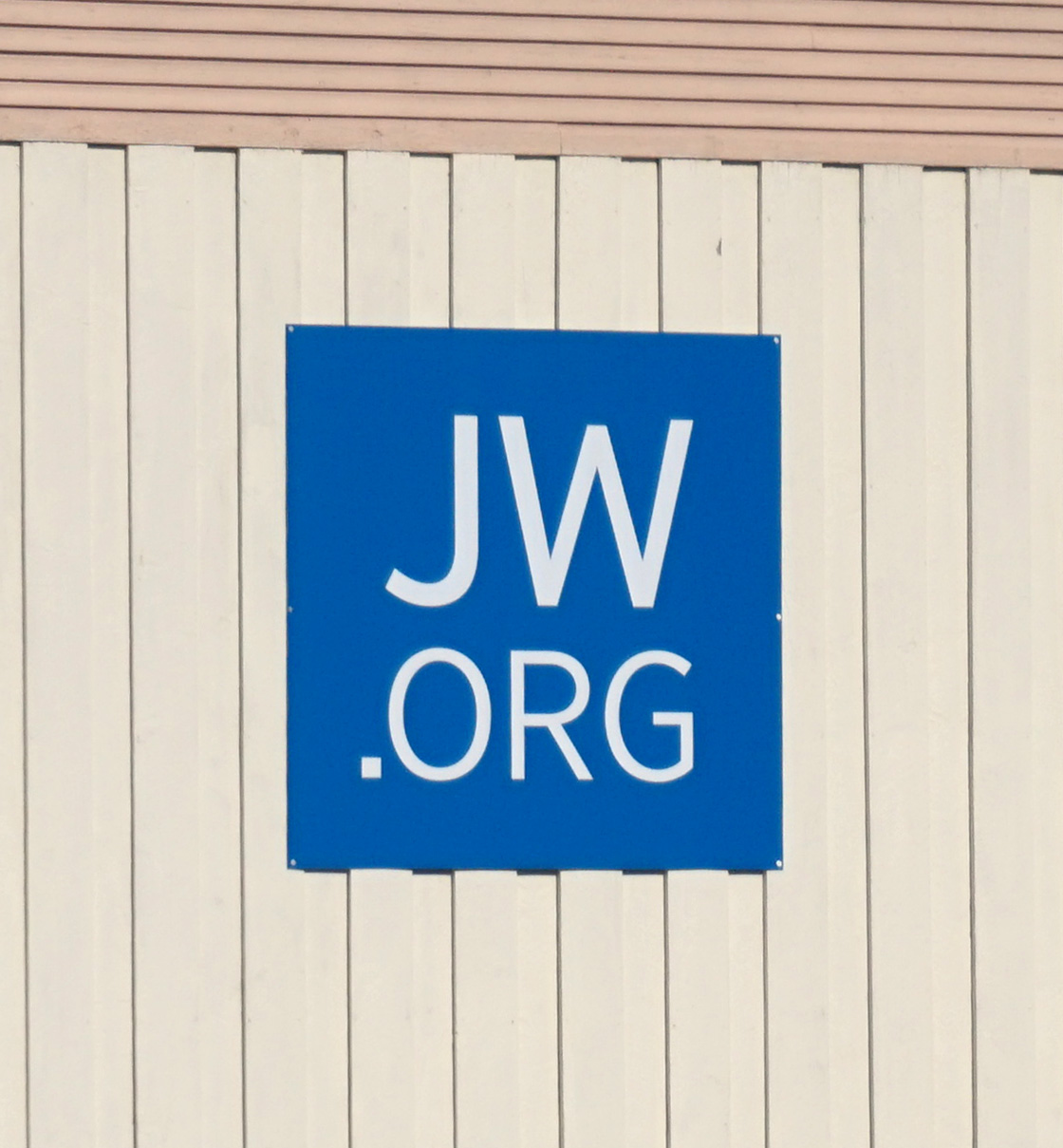 logo on a Kingdom Hall's wall in Alavus.This photograph was taken with a Sony ILCE-5000